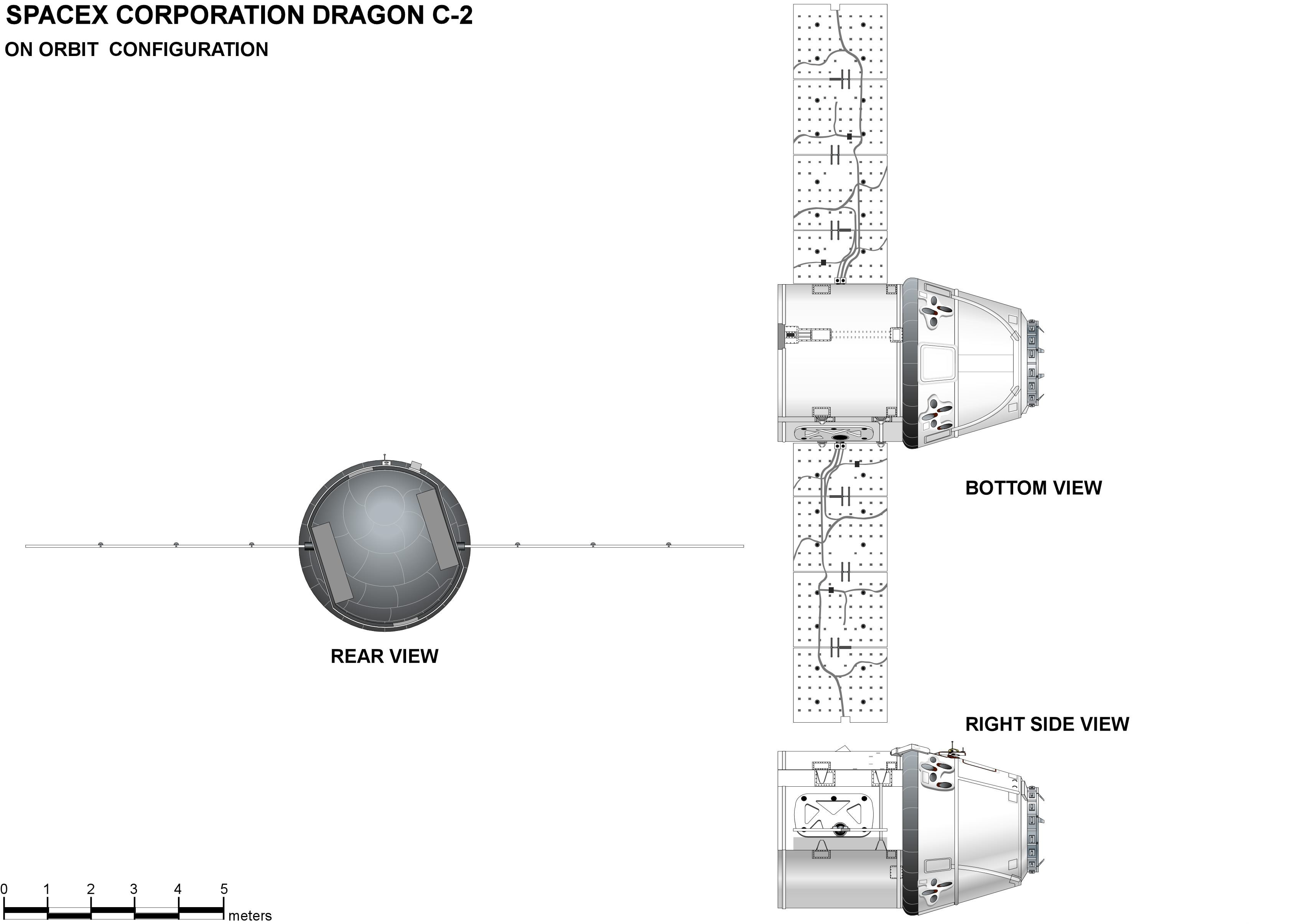 Dragon CRS 3 views